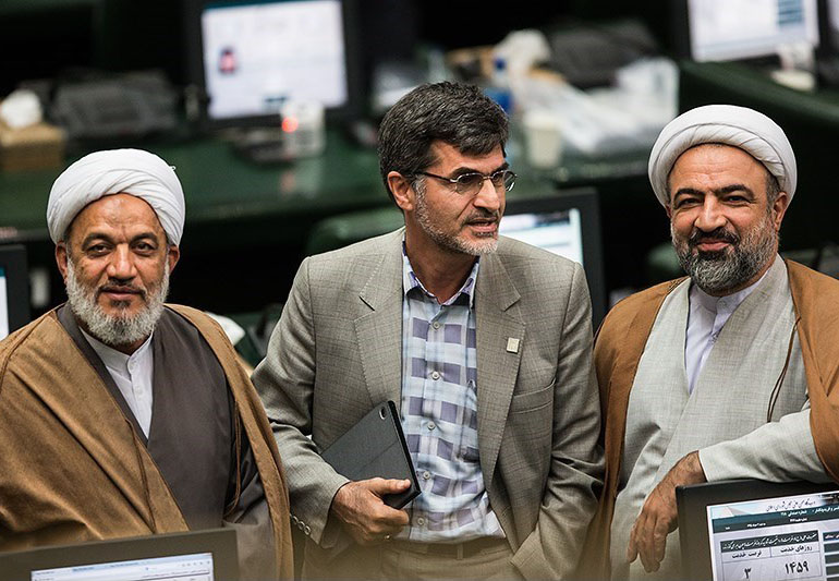 Morteza Agha-Tehrani, Mehdi Kouchakzadeh and Hamid Rasaee at the last day of ninth Majlis of I.R.Iran.